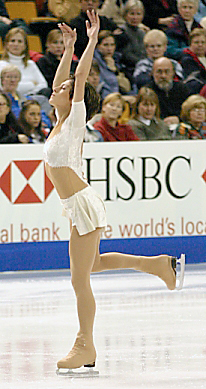 Anastasia Gimazetdinova competes her long program at the 2004 Four Continents Championships in Hamilton, Ontario.